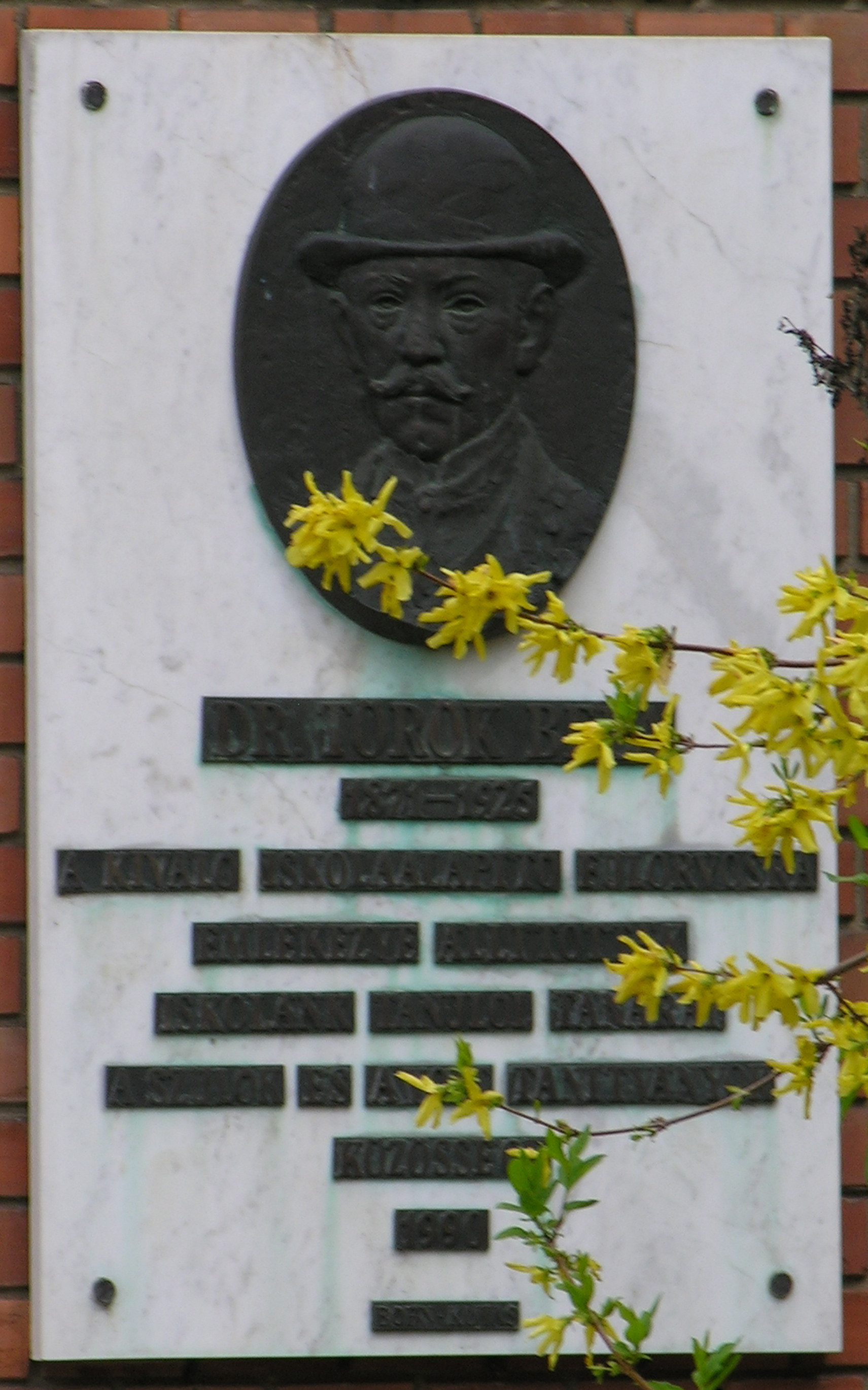 Commemorative plaque of the physician Béla Török in Budapest District XIV, Rákospatak Street No 101